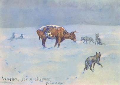 "Waiting for a Chinnook" Also known as "Last of the 5000"